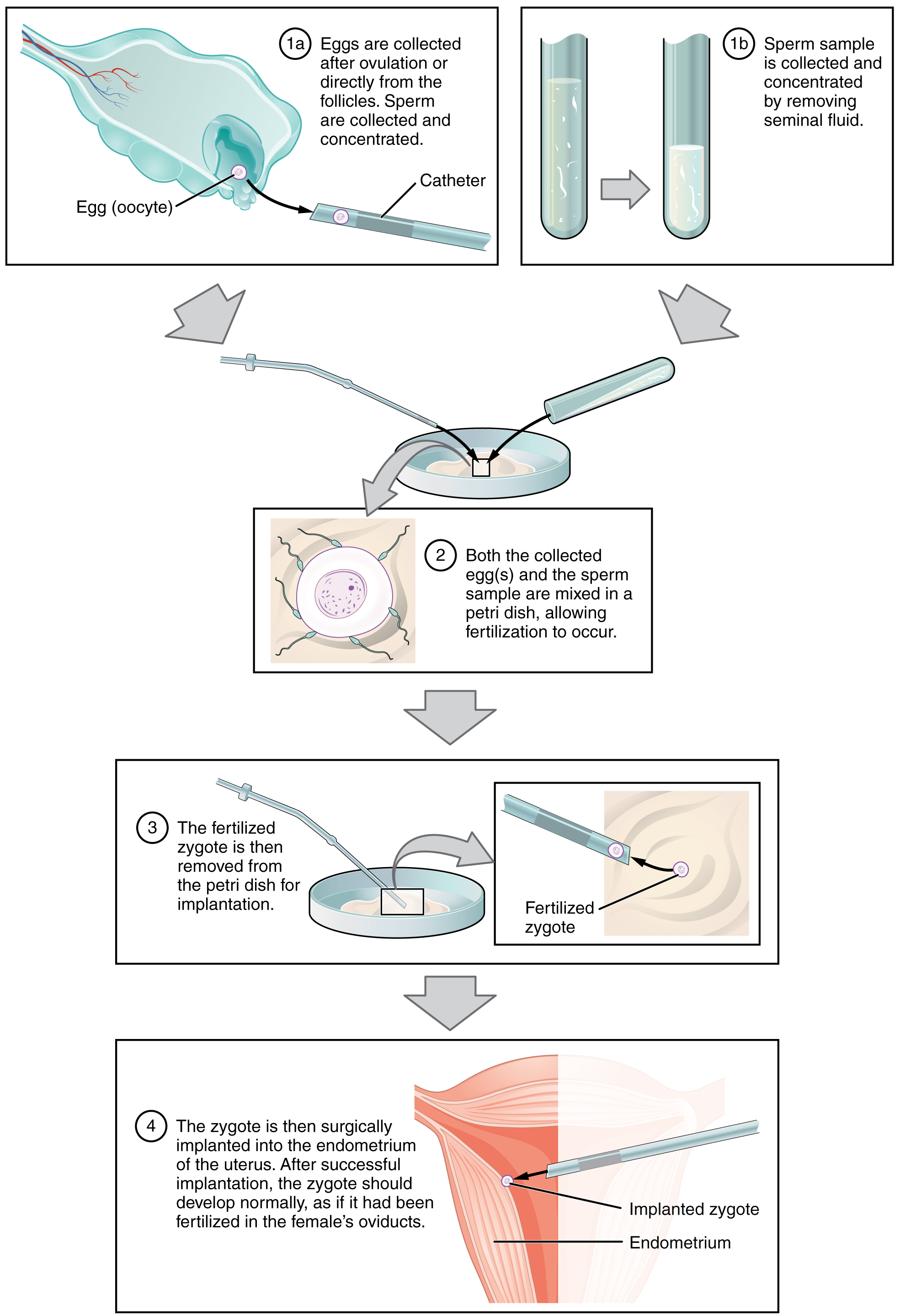 Illustration from Anatomy & Physiology, Connexions Web site. Jun 19, 2013.